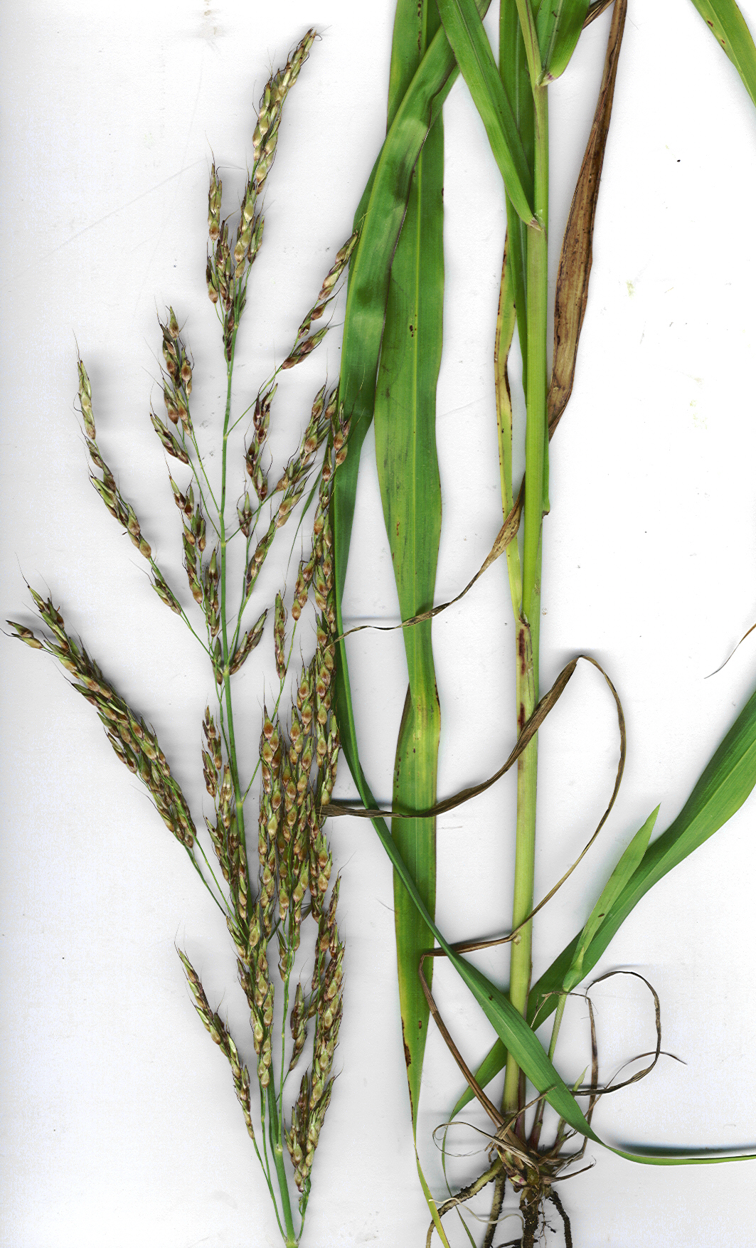 Sorghum halepense (plant). Location: Maui, Kahului